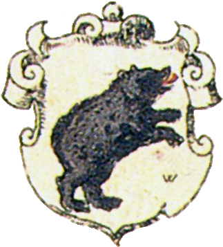 Coat of arms of Berlin in “Siebmachers Wappenbuch” from 1605.